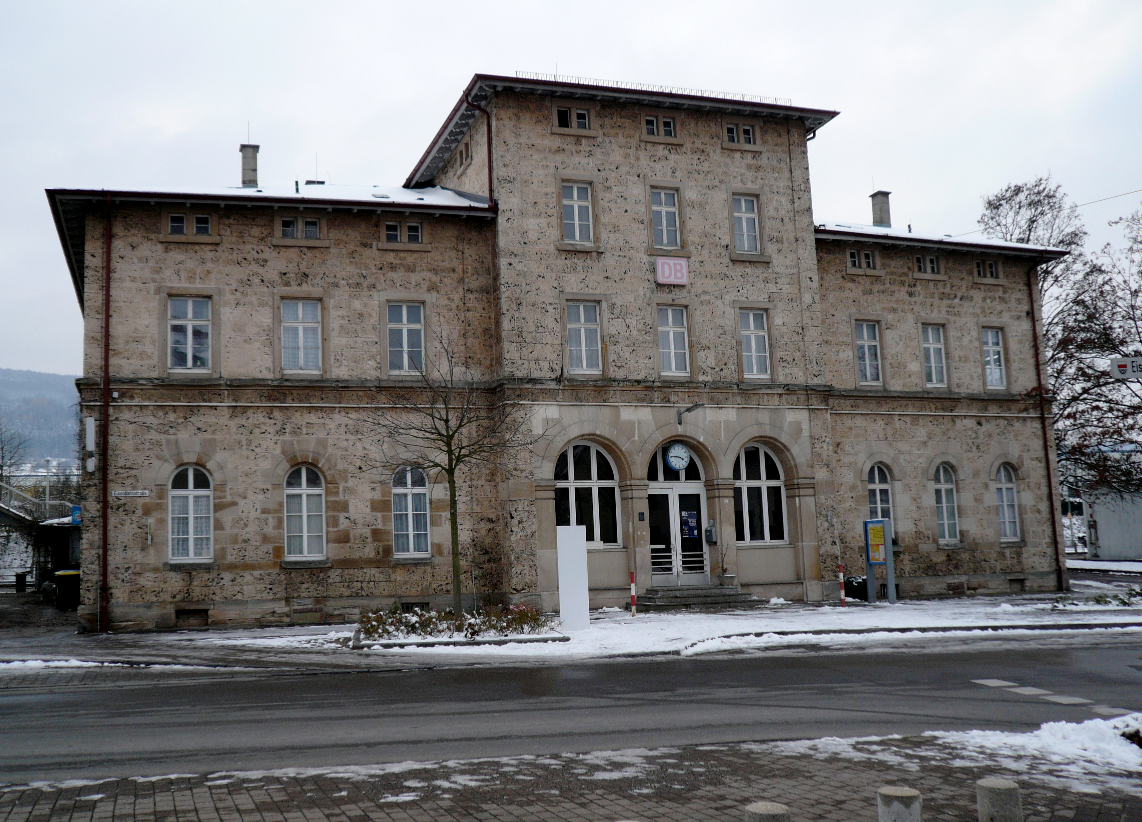 Train station of Spaichingen